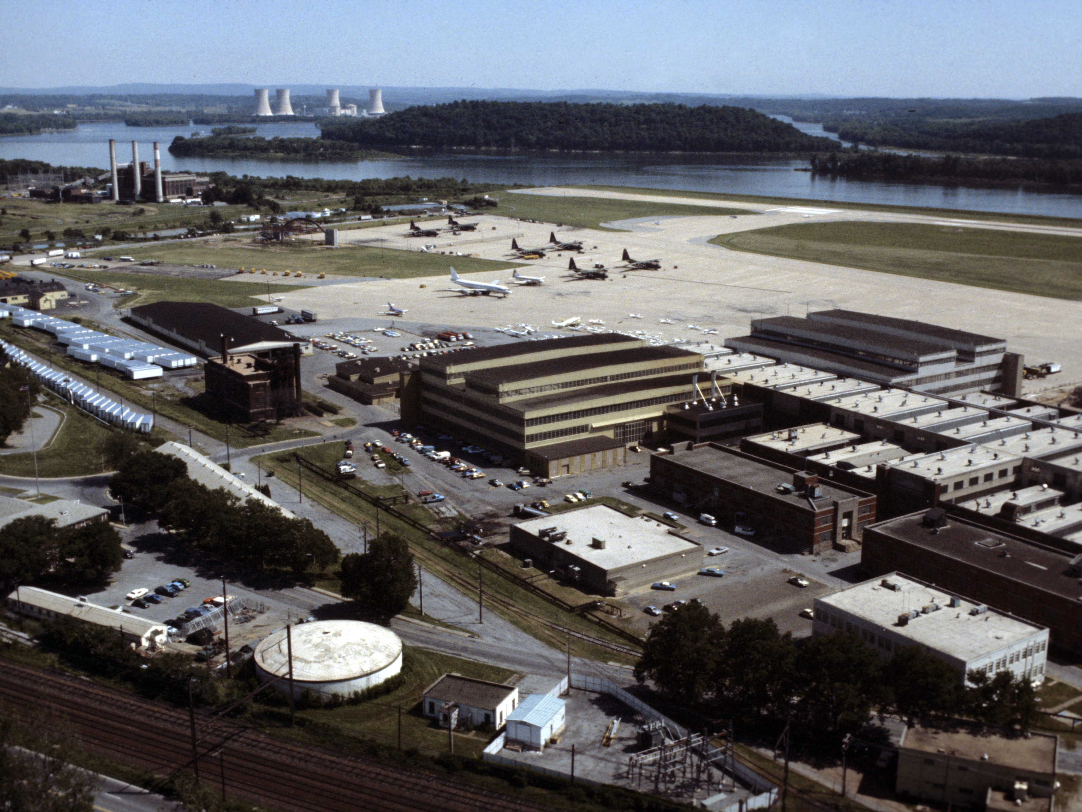 An aerial slide photo of the U.S. Air Force 193rd Tactical Electronic Warfare Group station, Pennsylvania Air National Guard, at the Harrisburg International Airport, Pennsylvania (USA), in May 1979. The Three Mile Island Nuclear Generating Station after the March 1979 nuclear accident. The future home of the 193rd is visable on the left side by the Susquehanna River near the top of the photo.